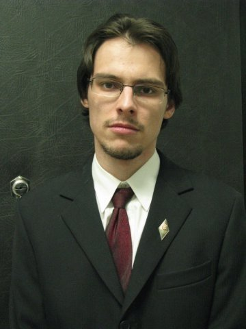 Uploaded from Anton’s FB account. According to him, all his FB photos are licensed under CC-BY-SA (